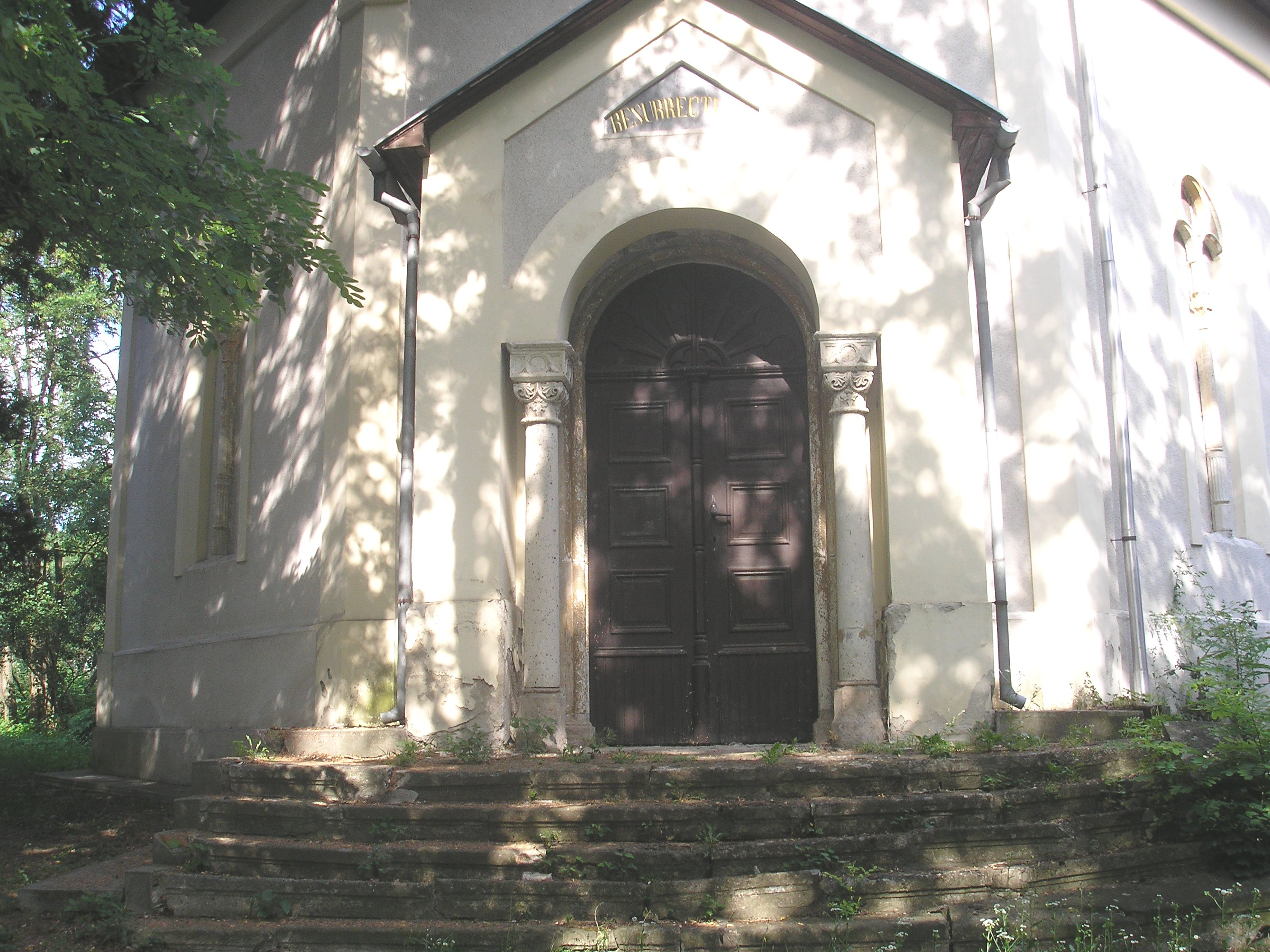 Crypt in Boldogkőváralja, Hungary